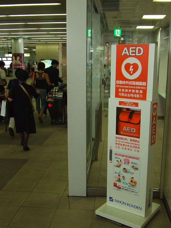 AED is setting up on some railway station in Japan. Usage shown on the front of AED box, in Japanese, English, Chinese and Korean. And station staff trained to use AED.